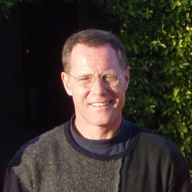 Actor Jason Beghe